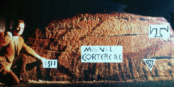 Professor E. Delabarre, Chairman of the Psychology Department at Brown University points to the date 1511 he discovered on the Dighton Rock, December 2, 1918.